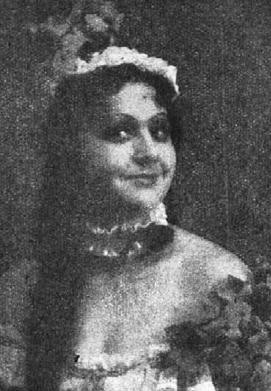 Cvetka Ahlin (28 November 1927 – 30 July 1985) , Slovene opera singer